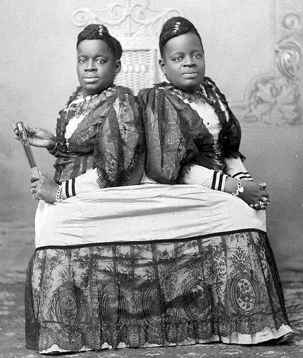 Original, early to mid-1890s era cabinet photo of conjoined twins Millie and Christine McCoy. Most likely while they were on tour in California, this image was taken by photographer Michael A. Wesner of Los Angeles.